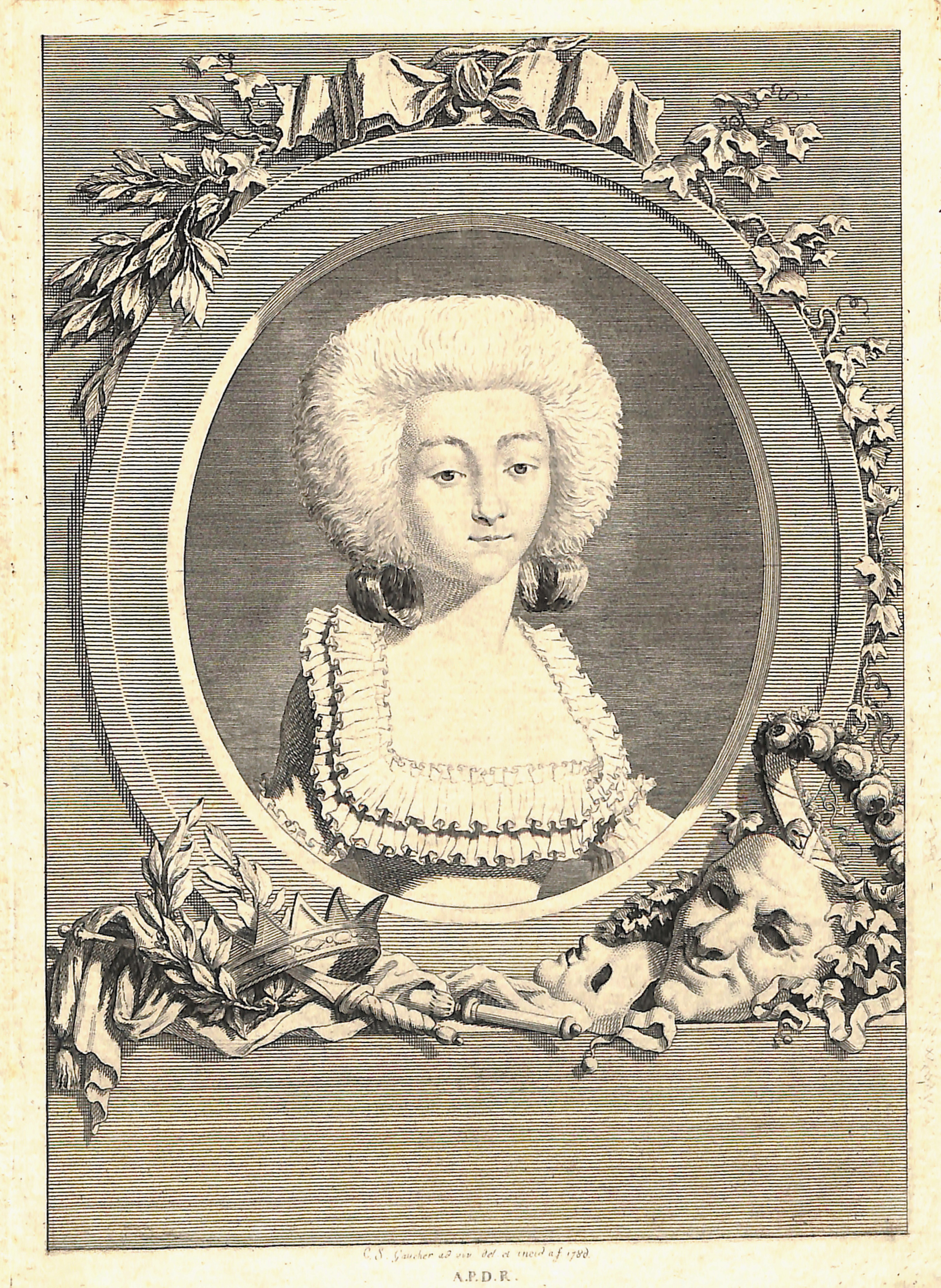 Engraving of the French actress of Dutch origin Cécile Caroline Charlotte Vanhove (1770- 1860). Mademoiselle Vanhove had become a member of the Comédie Française in 1785, 15 years old. One year later she was portrayed by Charles Etienne Gaucher.